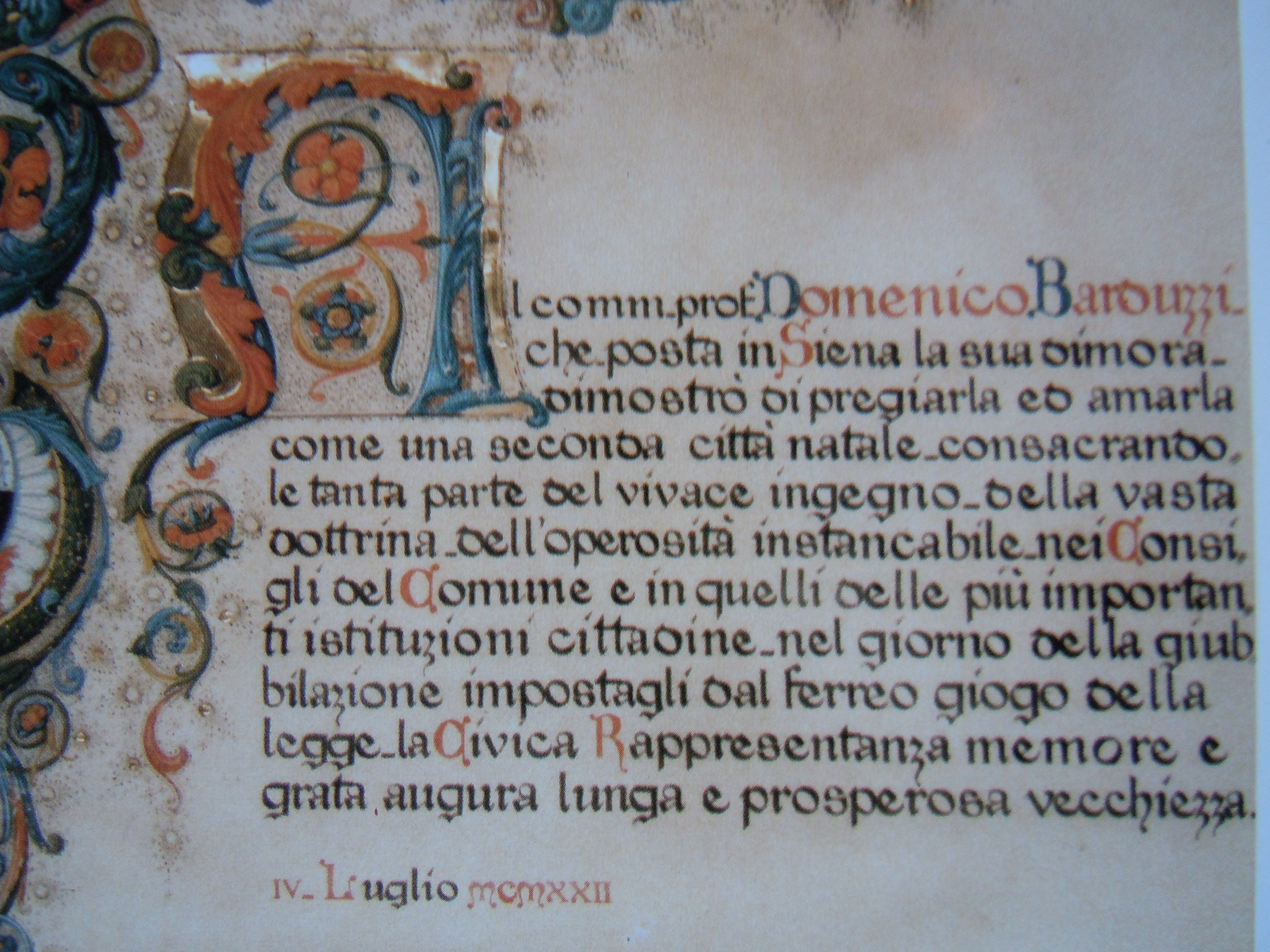 Parchment made in occasion of the Domenico Barduzzi's retirement (1929)